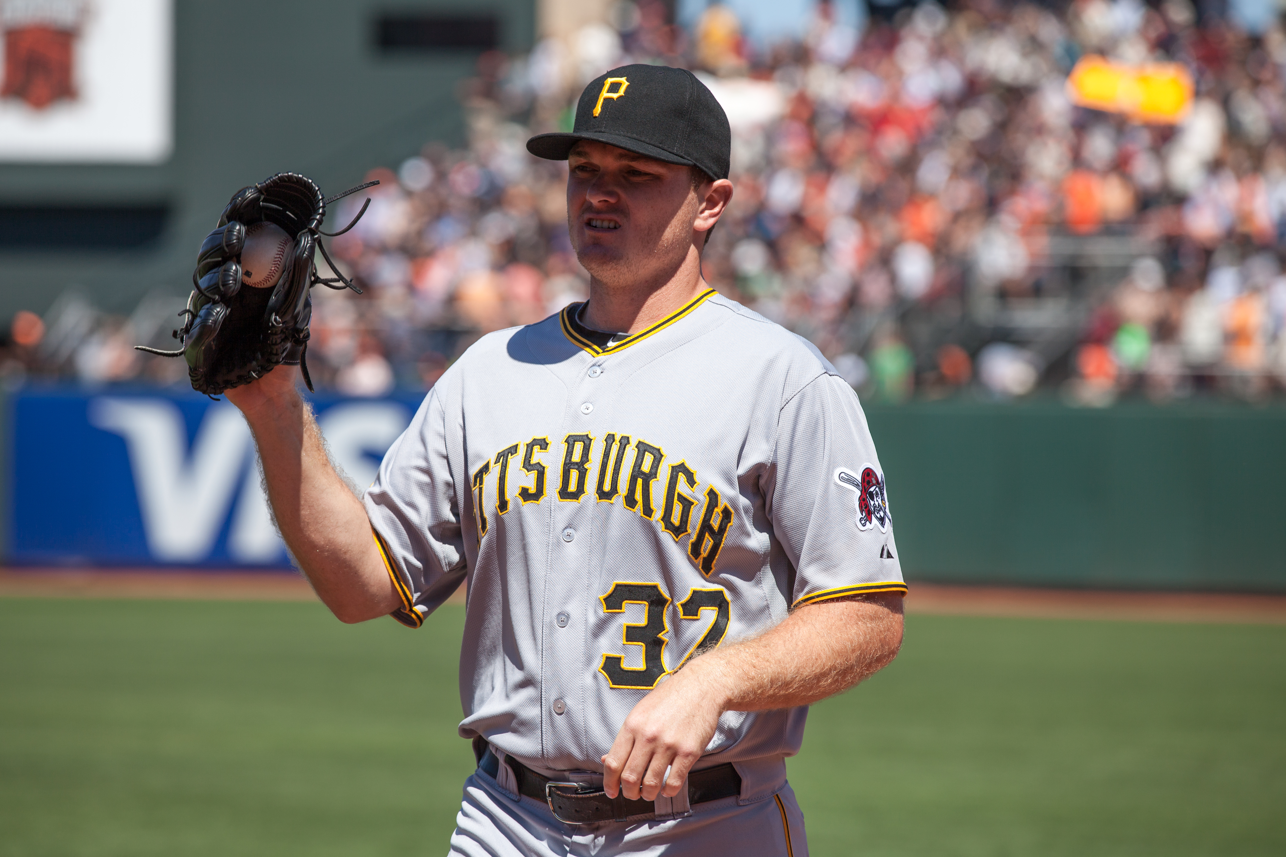 Pittsburgh Pirates pitcher Justin Wilson at the July 30, 2014, game against the San Francisco Giants at AT&T Park.